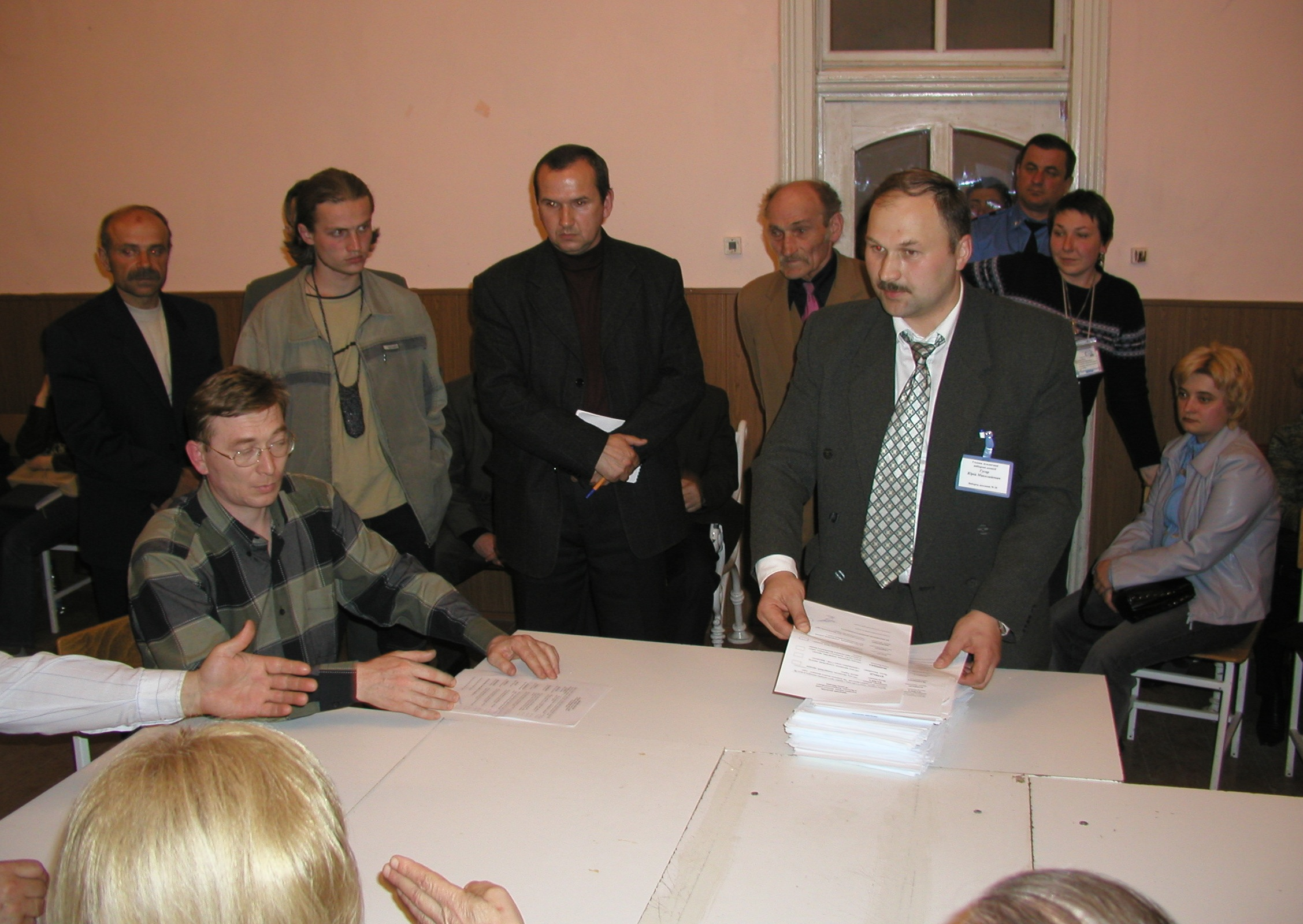 Mukacheve mayoral election, 2004